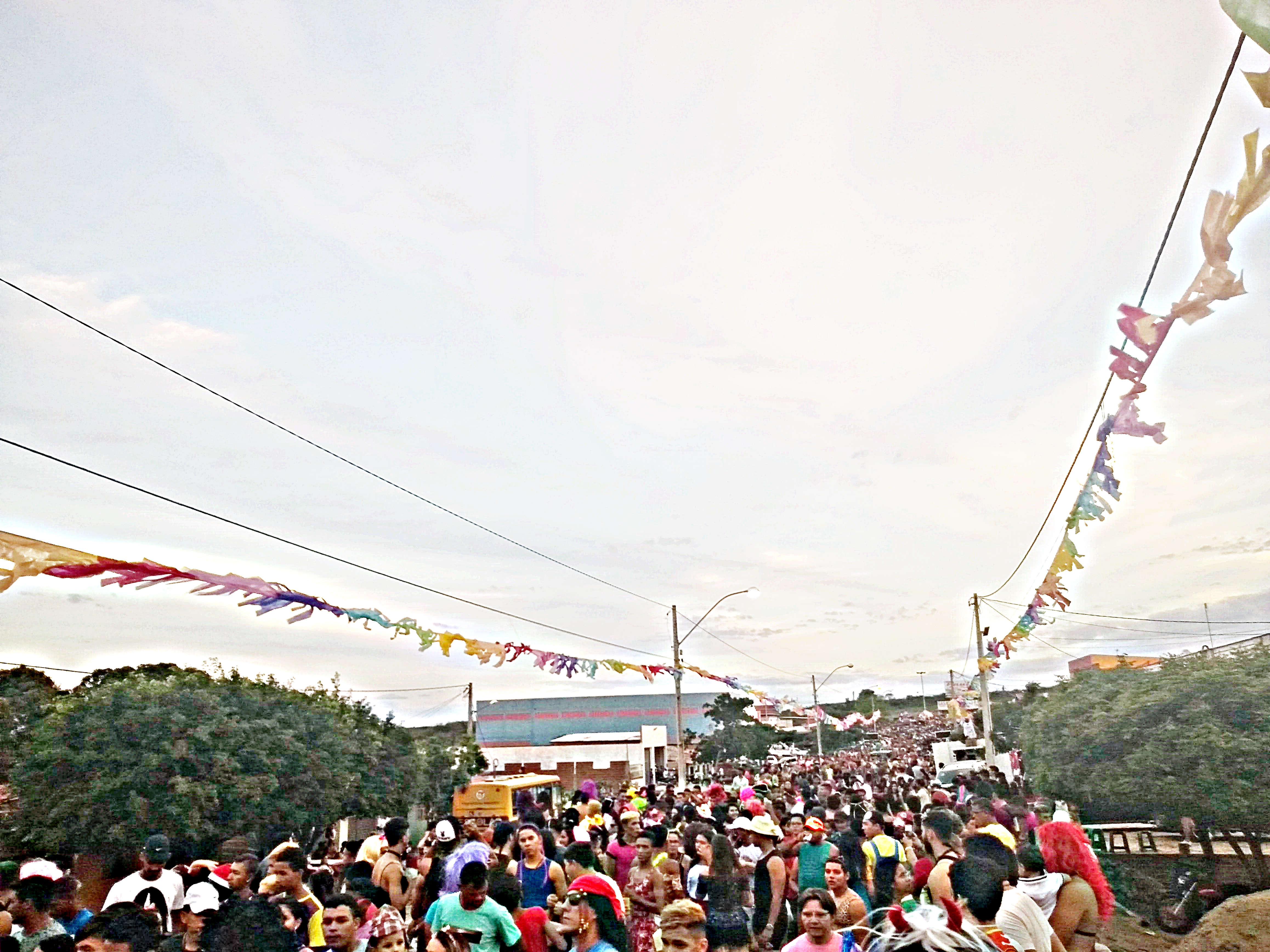 The largest Kenga Trail in Rio Grande do Norte.